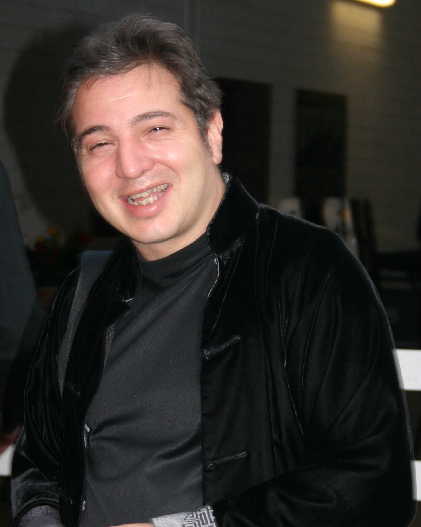 The pianist and composer Fazıl Say after a concert in Elmshorn during the Schleswig-Holstein Musik Festival